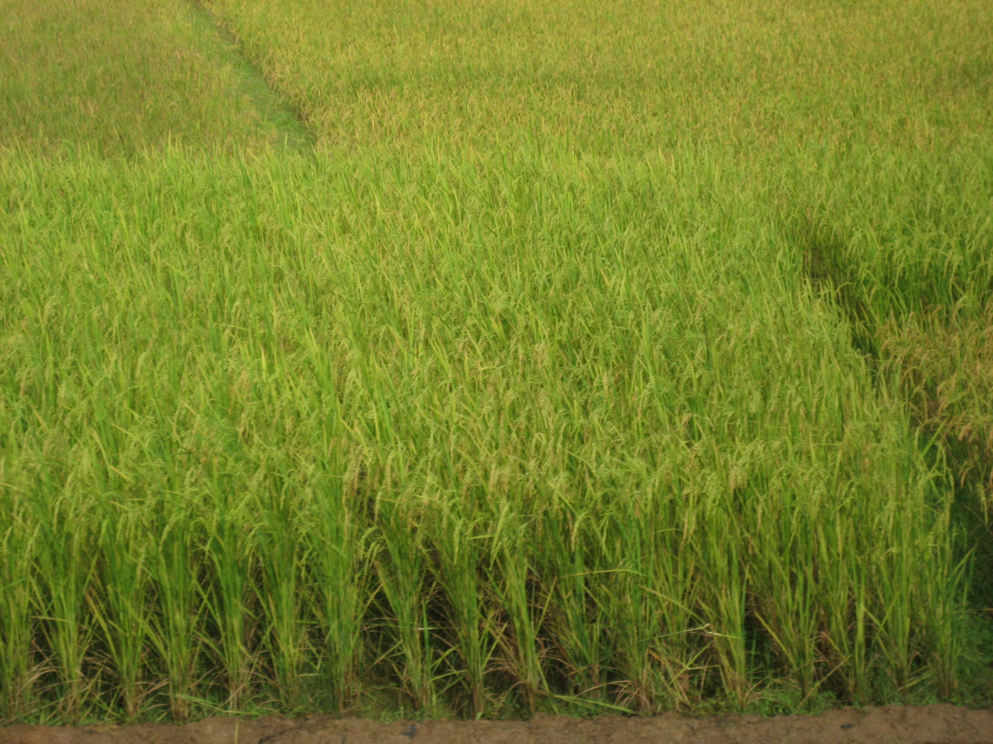 Paddy Field, between two mountain, Sylhet